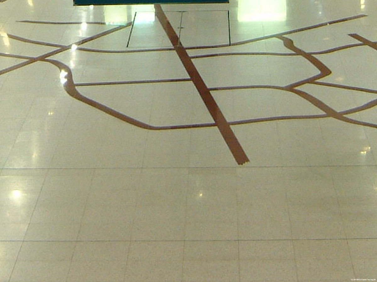 Detail of the artwork The Trade-Off by Singaporean artist Eng Tow on the floor of the platform of Kovan MRT Station on the North East Mass Rapid Transit Line in Singapore. It depicts maps of the Kovan area in 1945 and today, showing how urban development of the area has led to a loss of the greenery that used to exist.